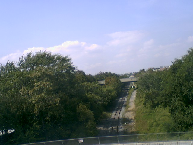 The single track branch of LIRR Bay Ridge Branch, runs through Brooklyn